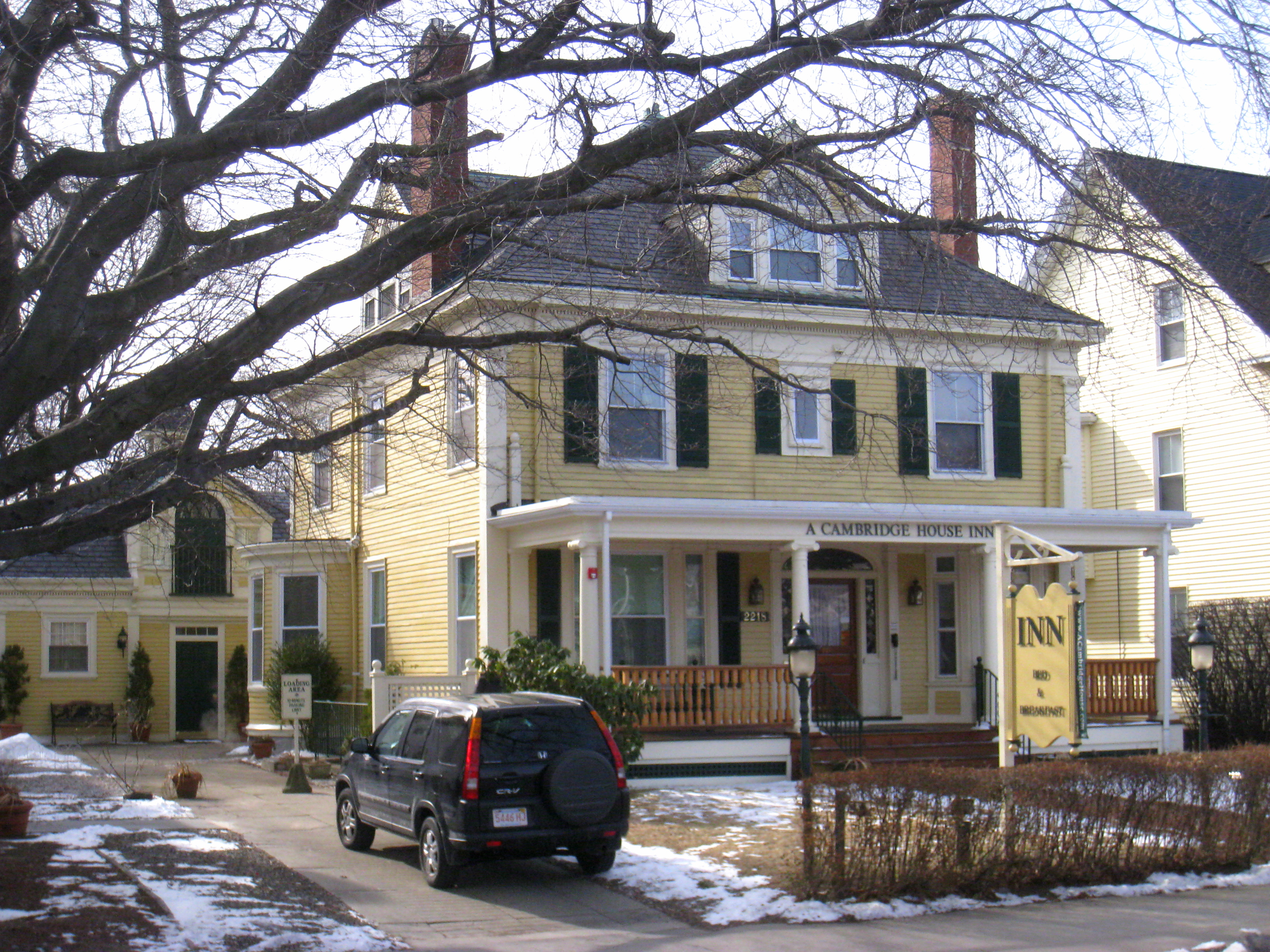 Isaac McLean House, 2218 Massachusetts Avenue, Cambridge, Massachusetts, USA. This building is on the National Register of Historic Places.